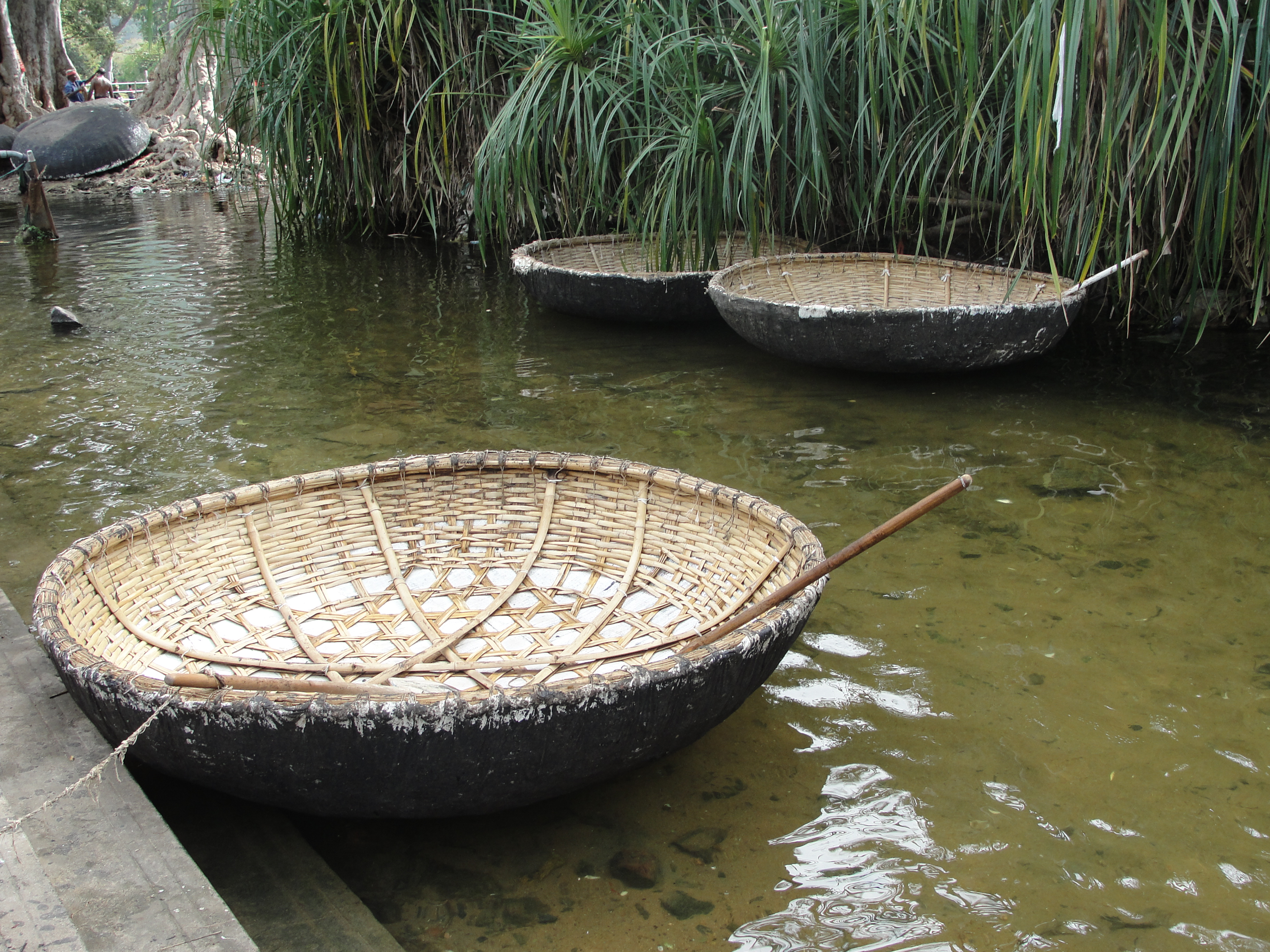 A coracle jetty in Hokenakal, Dharmapuri district, Tamil Nadu, India.